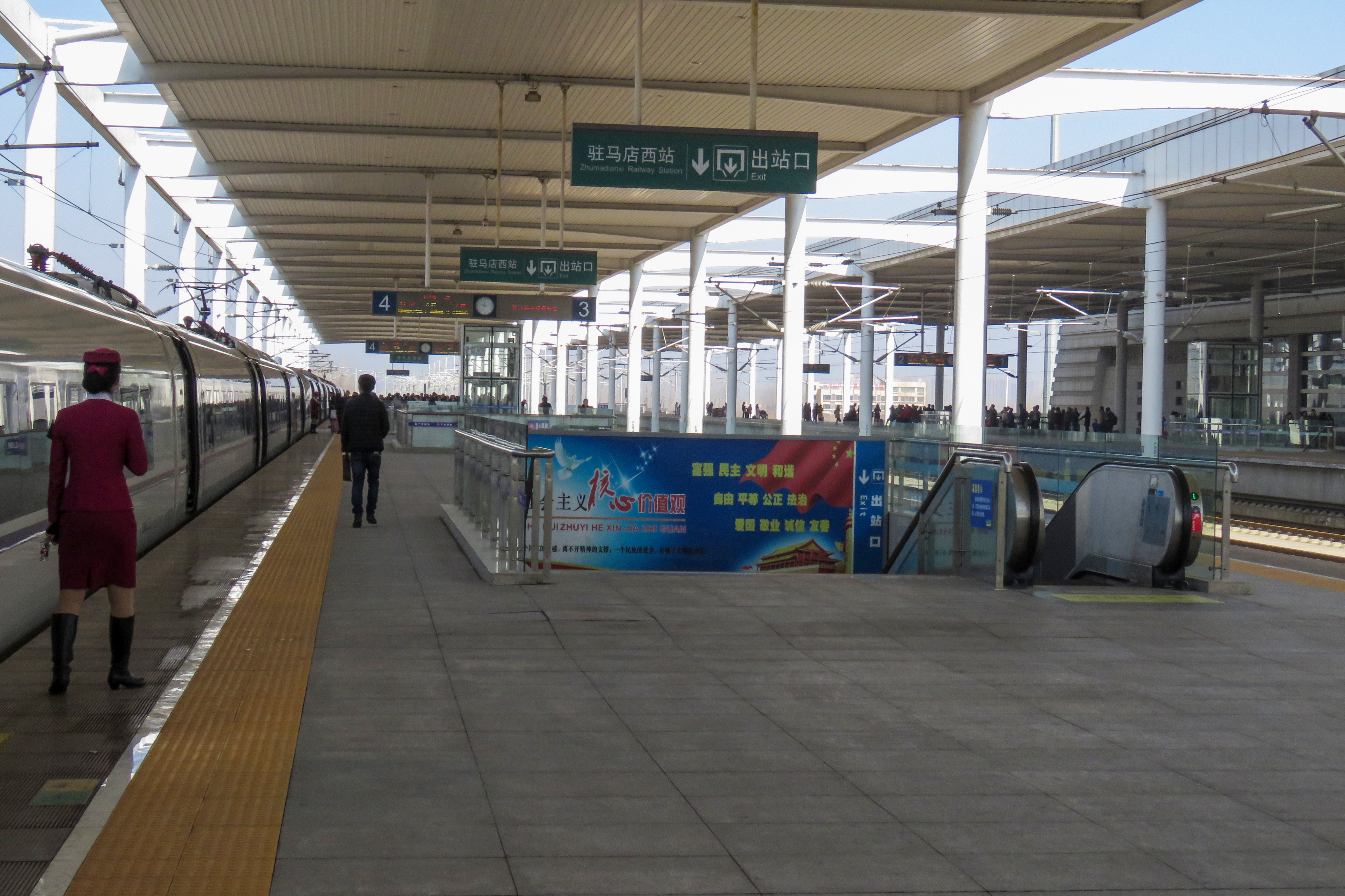 Taken during the stopover of G294.